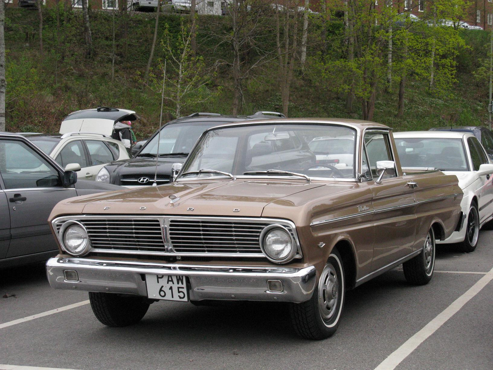 Ford Ranchero